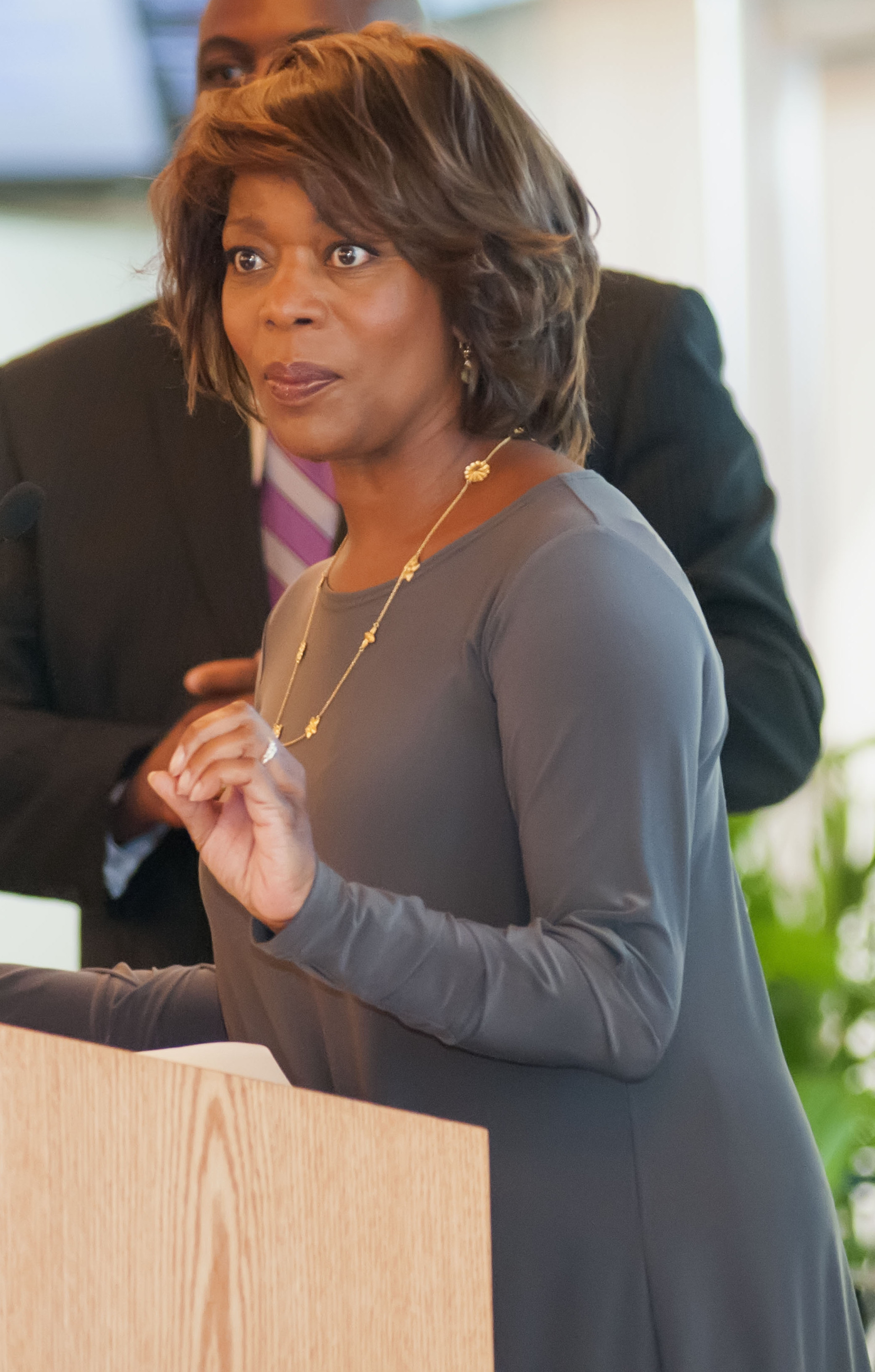 JCSU Alfre Woodard Congressional Black Caucus - Johnson C. Smith University